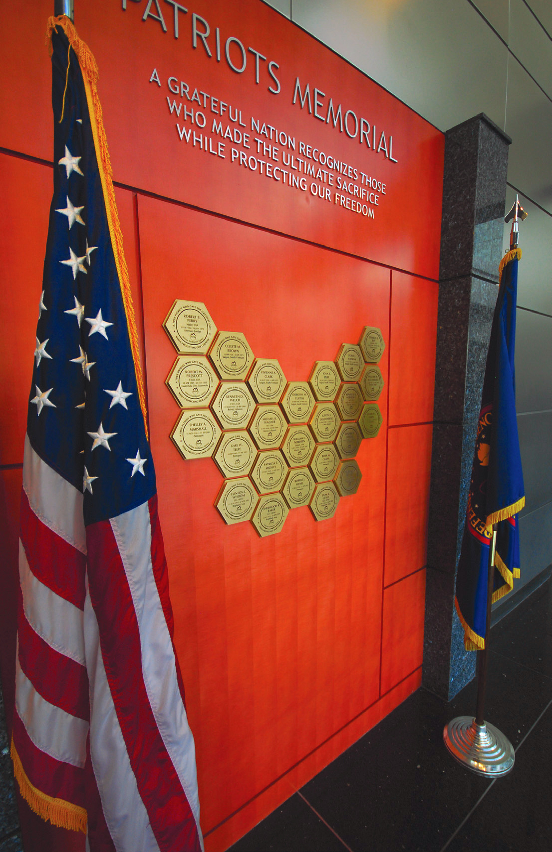 The memorial wall at the US Defense Intelligence Agency headquarters honoring those employees who gave their lives in service of the agency and whose deaths are not classified.